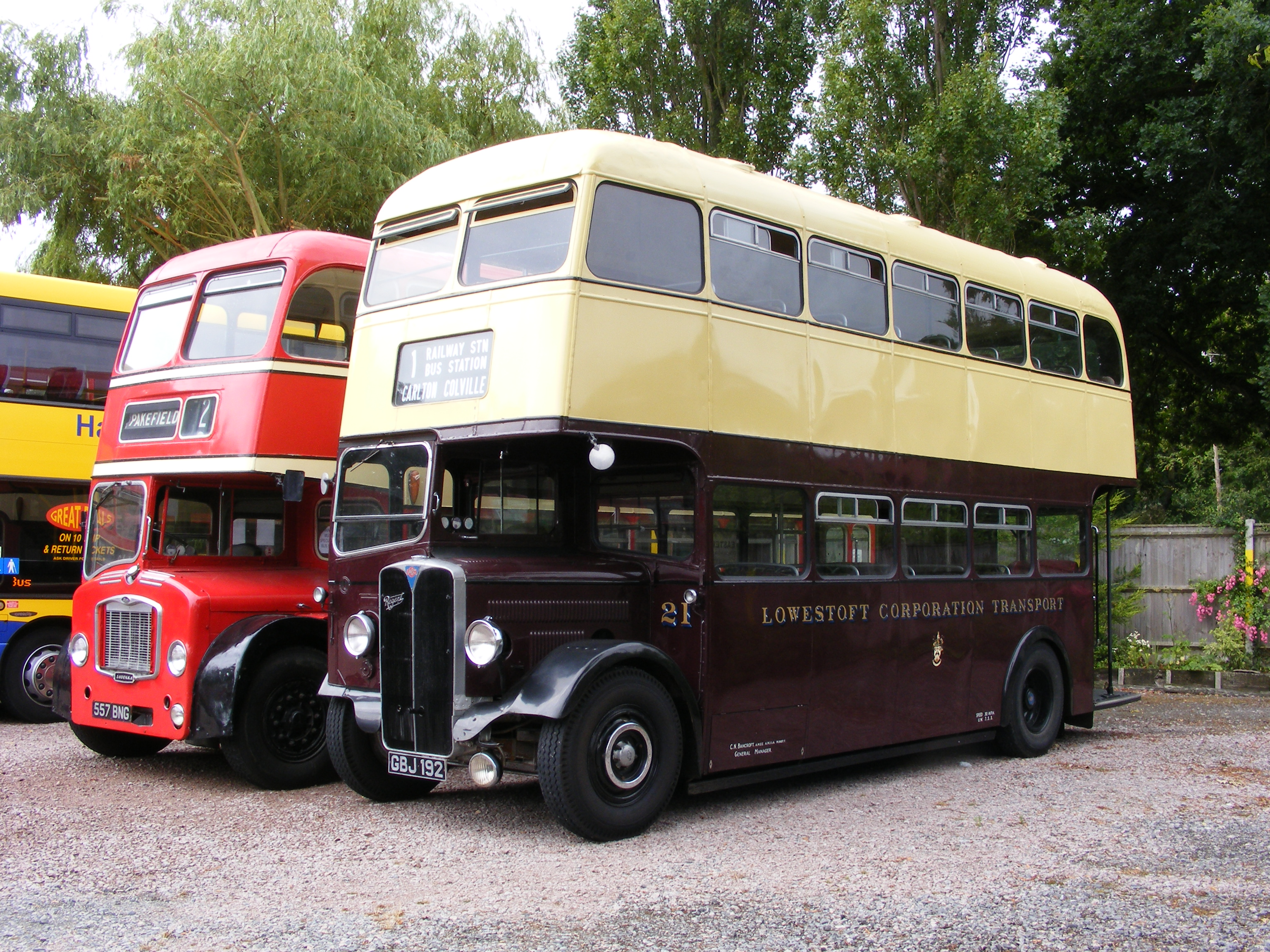 East Anglian Transport Museum This is normally the museum's public car park but, as this was a special Bus and Coach event, it was being used by visiting vehicles, most of which were running services for visitors to and from Lowestoft and Beccles. The vehicle on the right is a 1947 AEC Regent II with Eastern Coachworks (ECW) body, in the livery of Lowestoft Corporation. The vehicle on the left is a 1964 Bristol FL 'Lodekka', also with an ECW body, in the livery of Eastern Counties. ECW were a local firm, based in Lowestoft, as were both the operators.